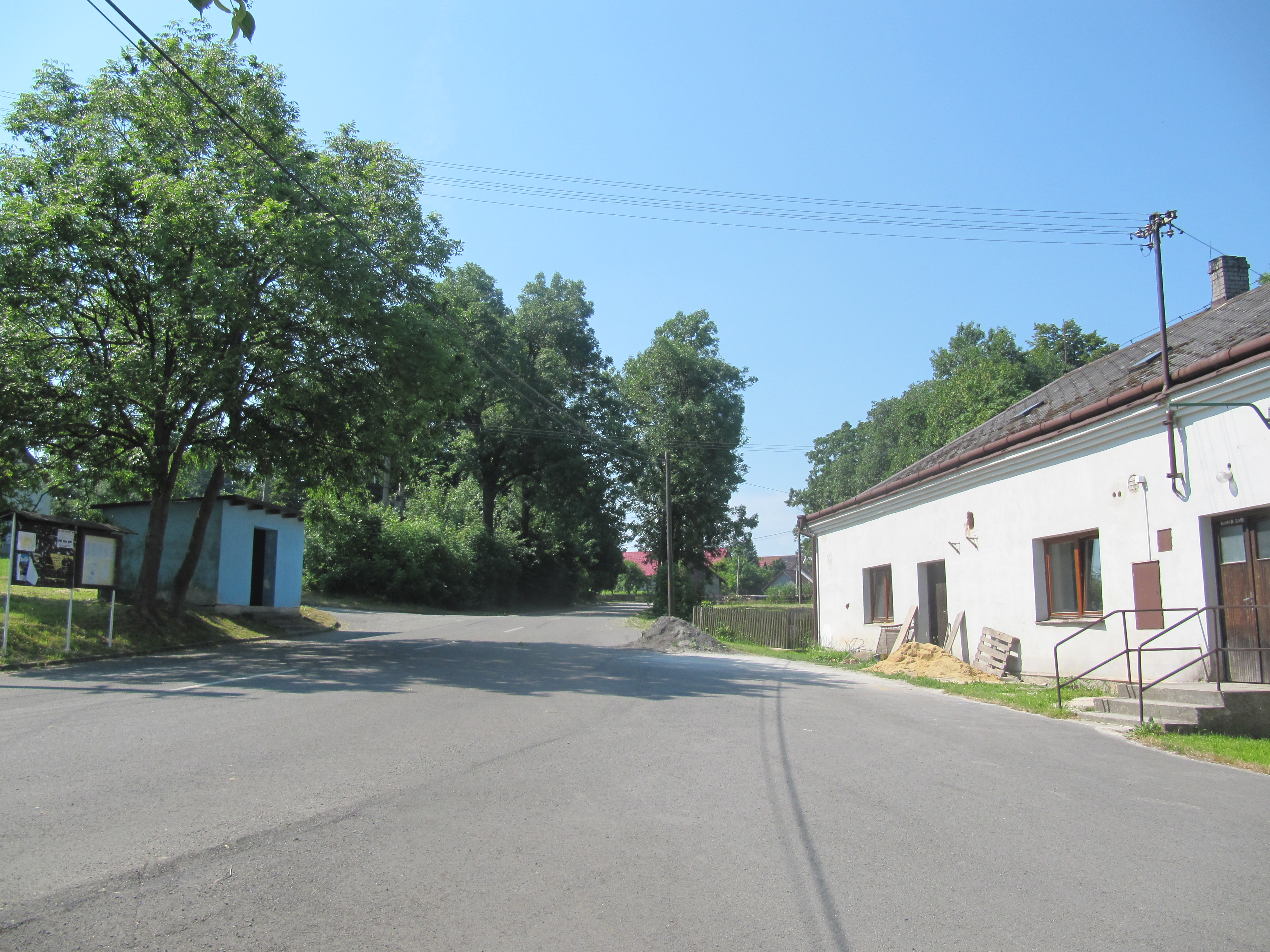 Březová, Opava District, Czech Republic, part Gručovice.